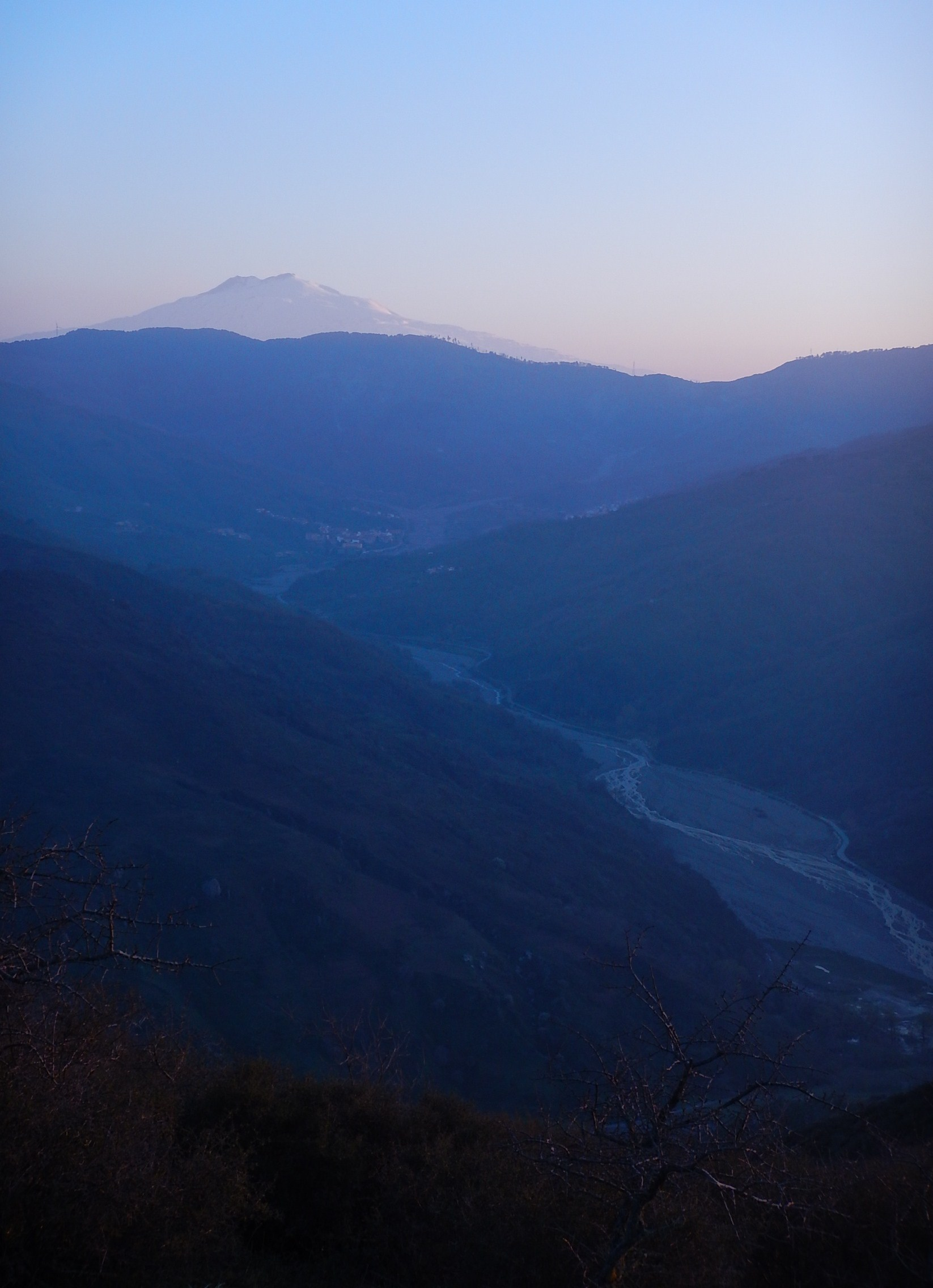 fondachelli fantina valley under etna